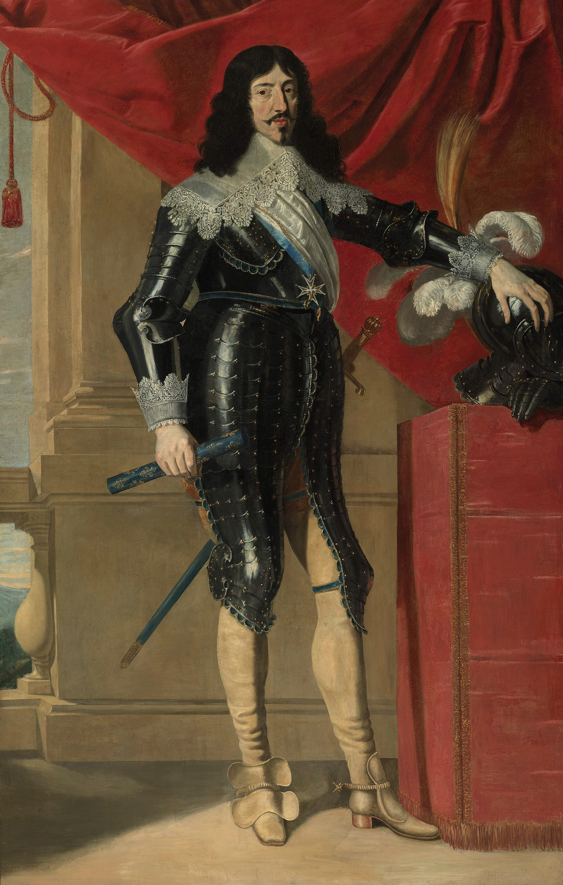 Louis XIII (1601-1643), King of France (1601-1643), Regency (1610-1614)